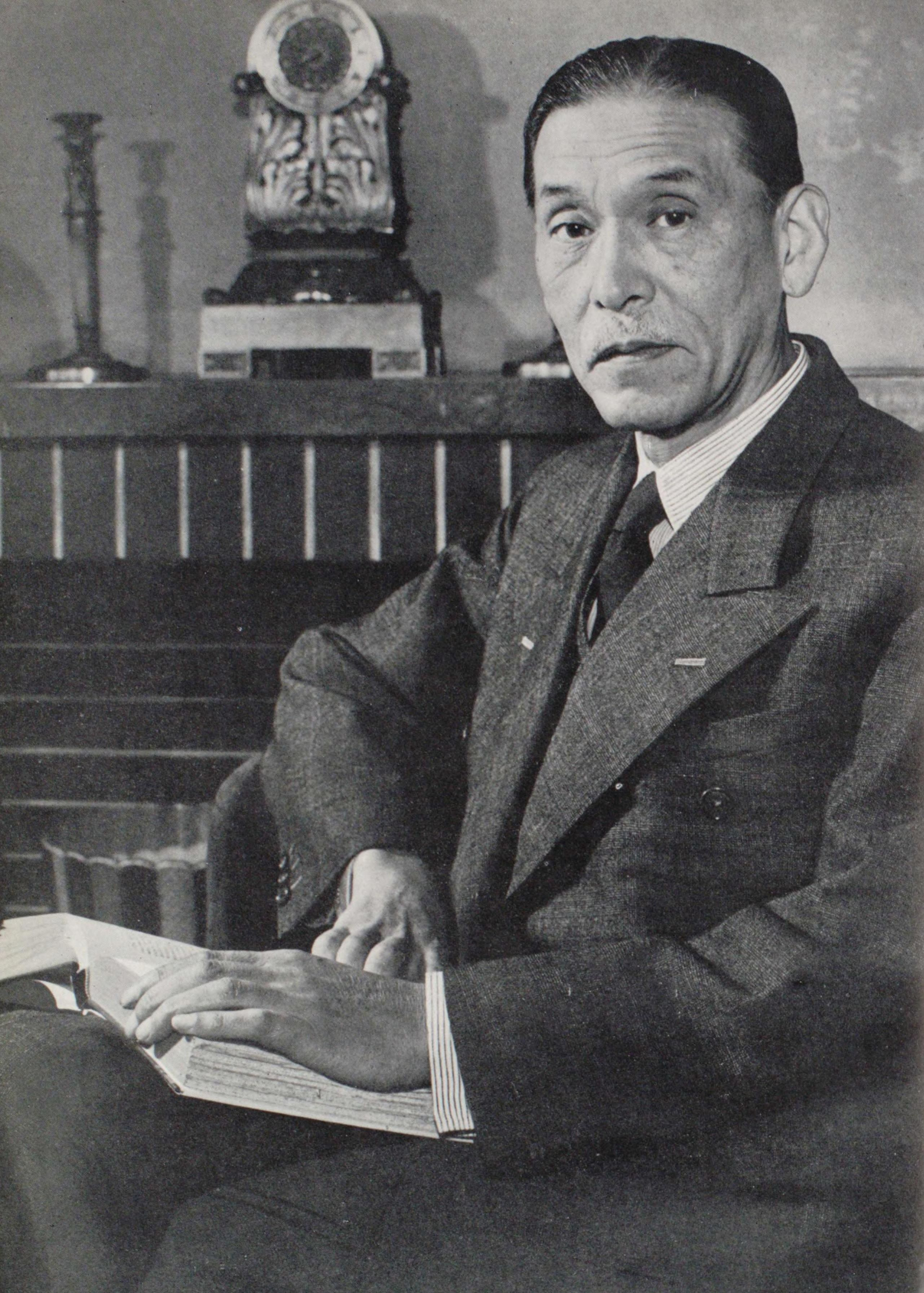 Japanese Foreign Ministry official and politician, Ashida Hitoshi (1887-1959)